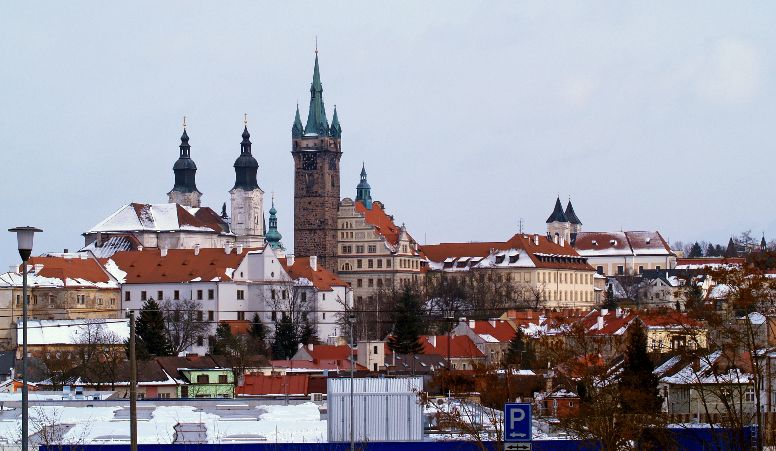 Krásný pohled